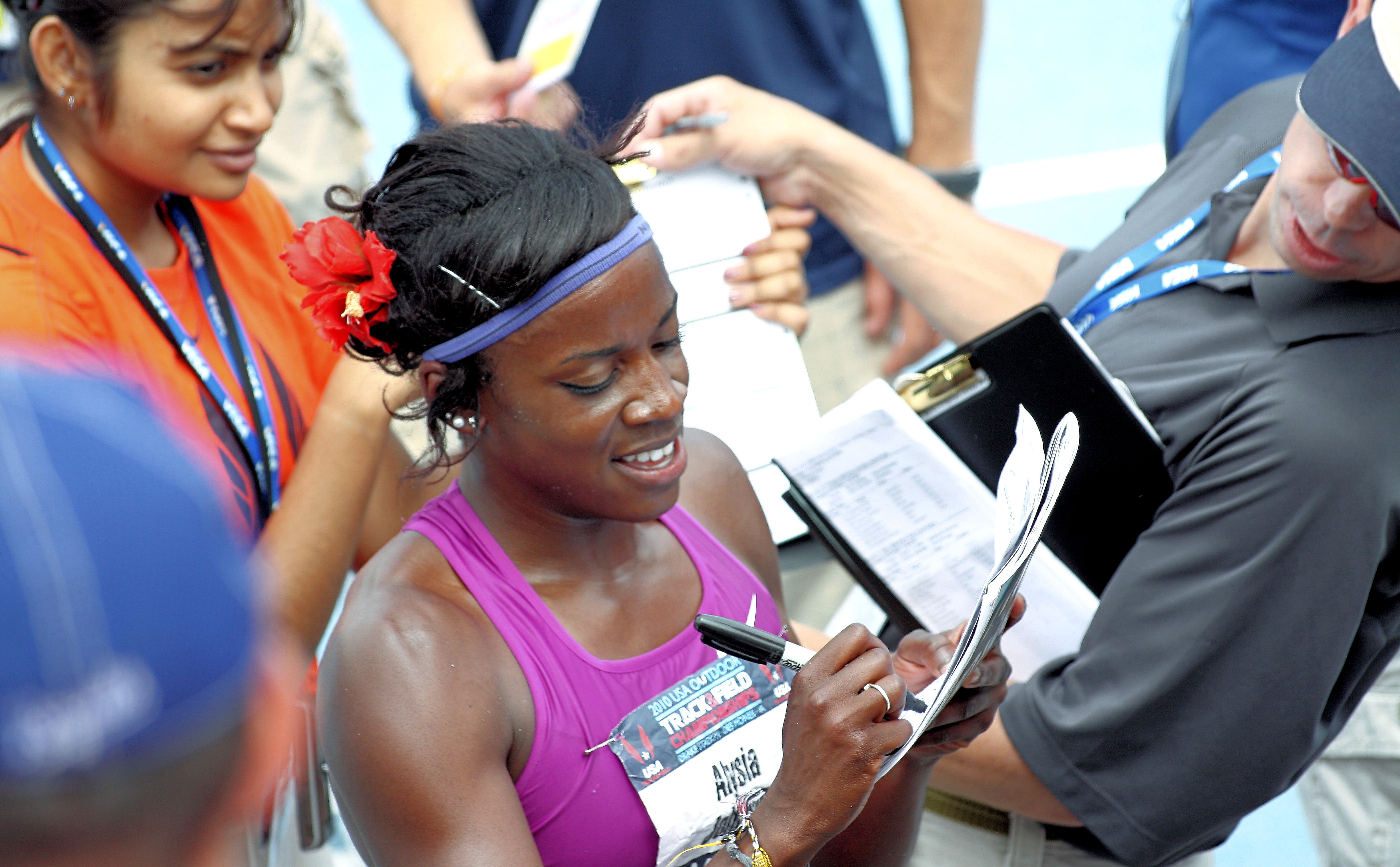 Alysia Johnson signs autographs after winning the 800m national title.